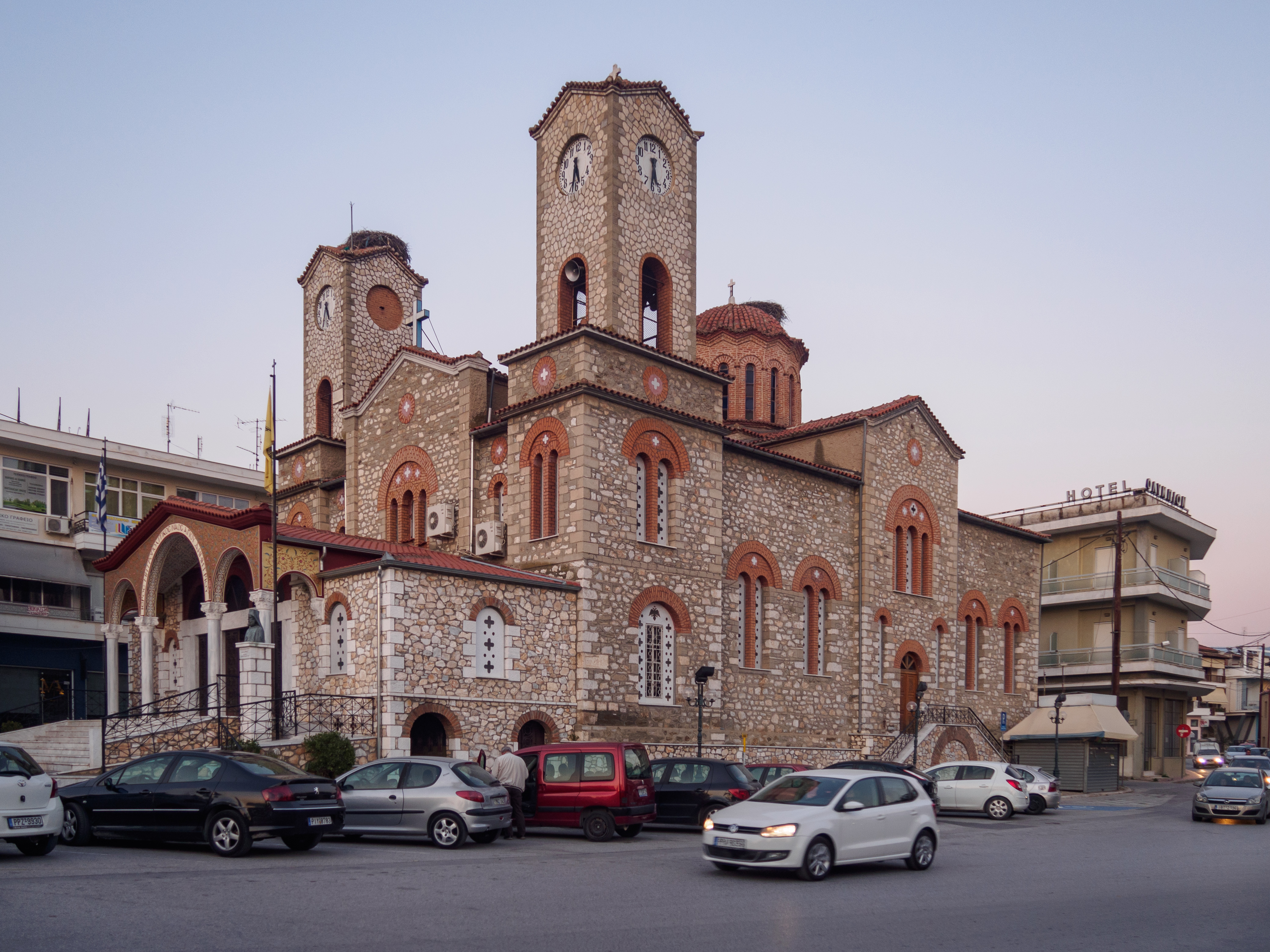 The metropolitan church of Saint Demetrios in Elassona. It was built in 1930.